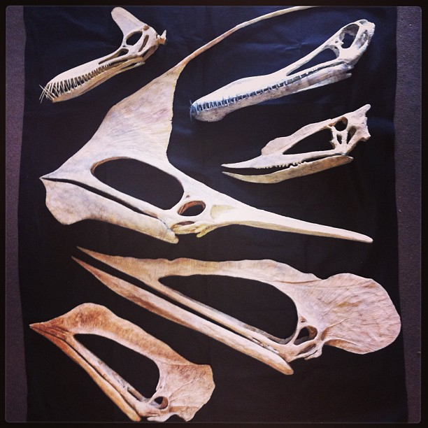 The Imaginary Pterosaur family: Guidraco, Anhanguera, Dsungaripterus, Tupandactylus, Tupuxuara and pterosaur #6 (not yet classified)